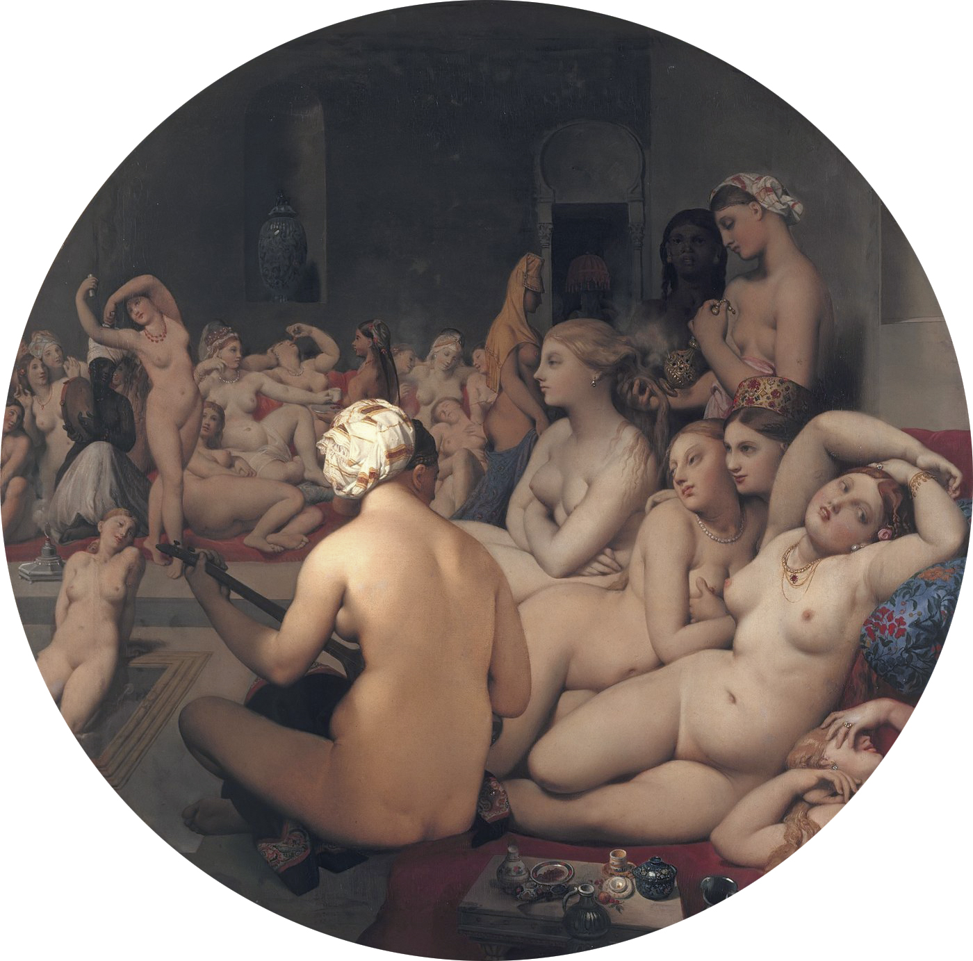 Le Bain turc (The Turkish bath). Oil on canvas, 1862.